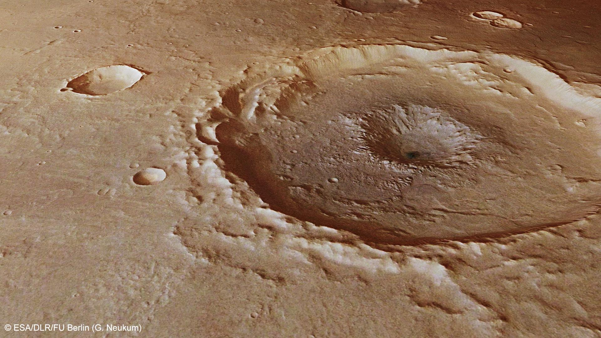 A perspective view of a 50 km diameter crater in Thaumasia Planum. The image was made by combining data from the High-Resolution Stereo Camera on ESA’s Mars Express with digital terrain models. The image was taken on 4 January 2013, during orbit 11467, and shows a close up view of the central ‘pit’ of this crater, which likely formed by a subsurface explosion as the heat from the impact event rapidly vapourised water or ice lying below the surface. For more information, please click here. Credit: ESA/DLR/FU Berlin (G. Neukum), CC BY-SA 3.0 IGO Copyright Notice: This work is licenced under the Creative Commons Attribution-ShareAlike 3.0 IGO (CC BY-SA 3.0 IGO) licence. The user is allowed to reproduce, distribute, adapt, translate and publicly perform this publication, without explicit permission, provided that the content is accompanied by an acknowledgement that the source is credited as 'ESA/DLR/FU Berlin’, a direct link to the licence text is provided and that it is clearly indicated if changes were made to the original content. Adaptation/translation/derivatives must be distributed under the same licence terms as this publication. To view a copy of this license, please visit